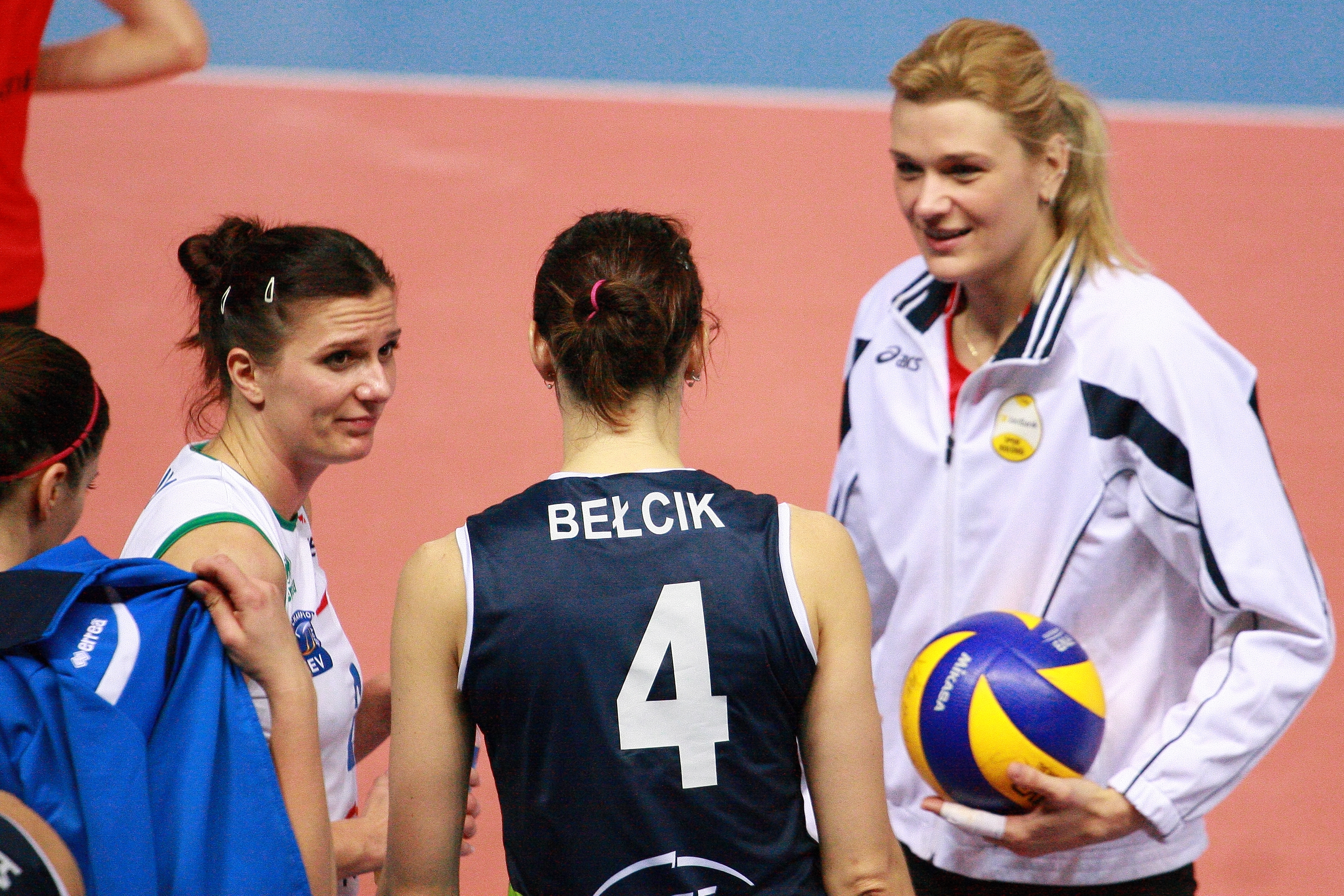 Vakifbank Istanbul vs Atom Trefl Sopot